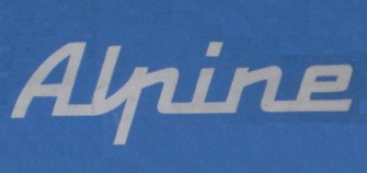 Alpine